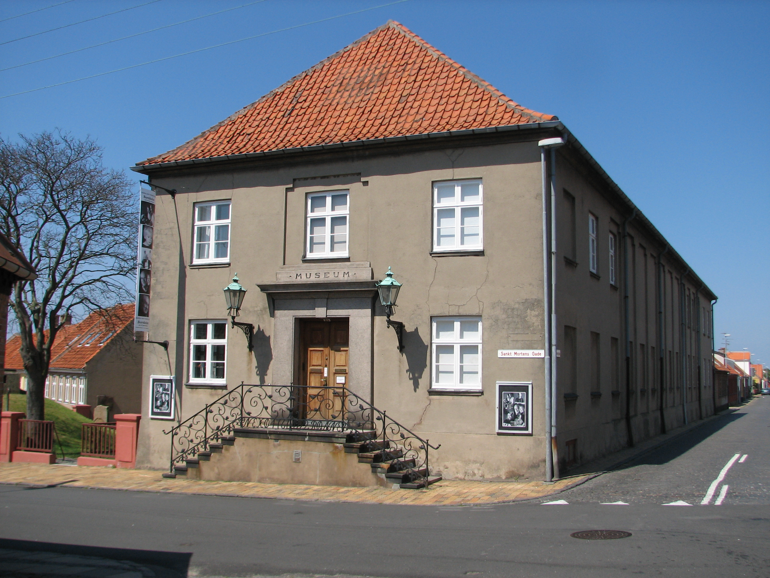 Bornholms Museum, Sankt Mortens Gade 29, 3700 Rønne.